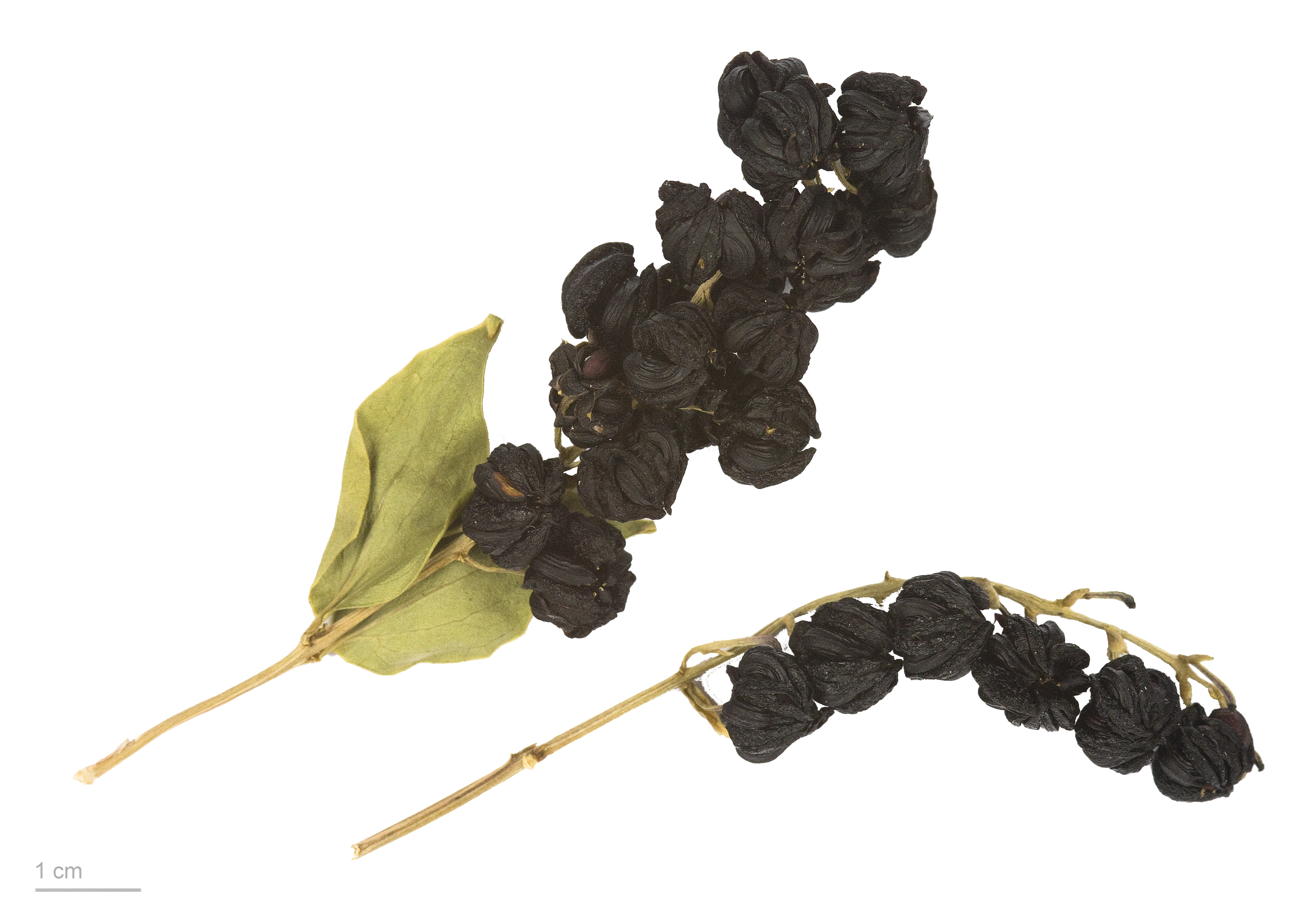 redoul, fruits and seeds